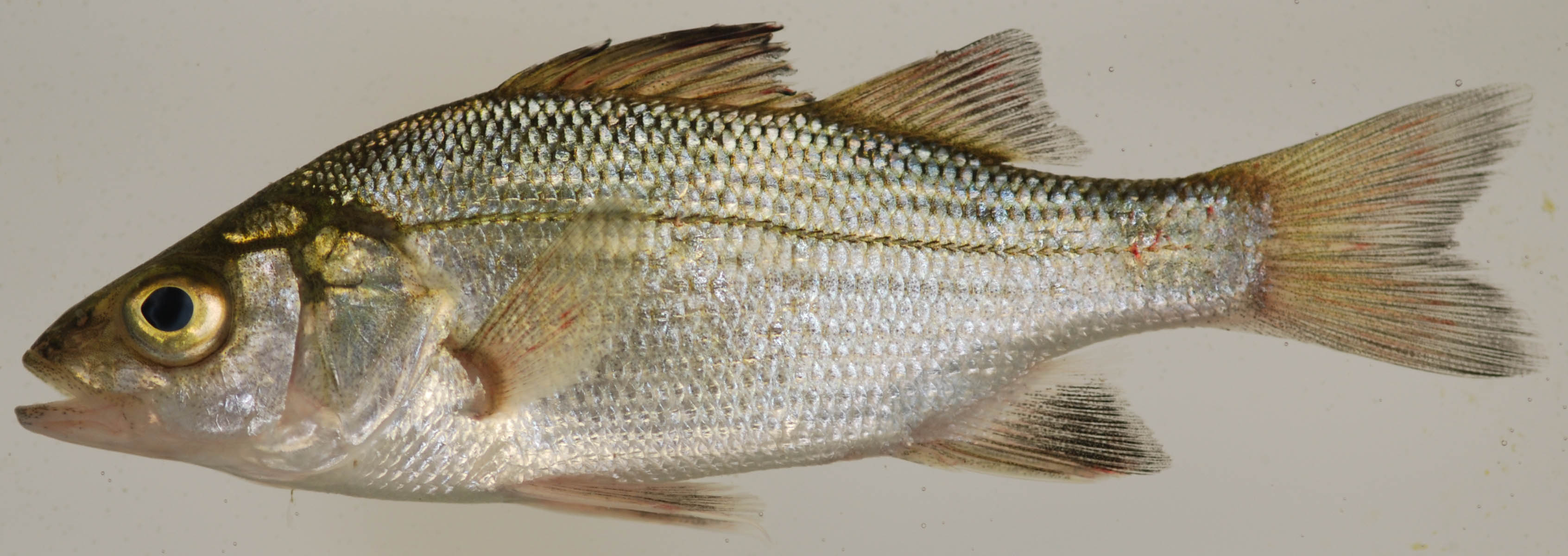 white perch, Morone americana, 91mm SL. Rhode River, Muddy Creek Fish Weir, SERC, Anne Arundel County, MD - 06/08/12. Photo by Robert Aguilar, Smithsonian Environmental Research Center.